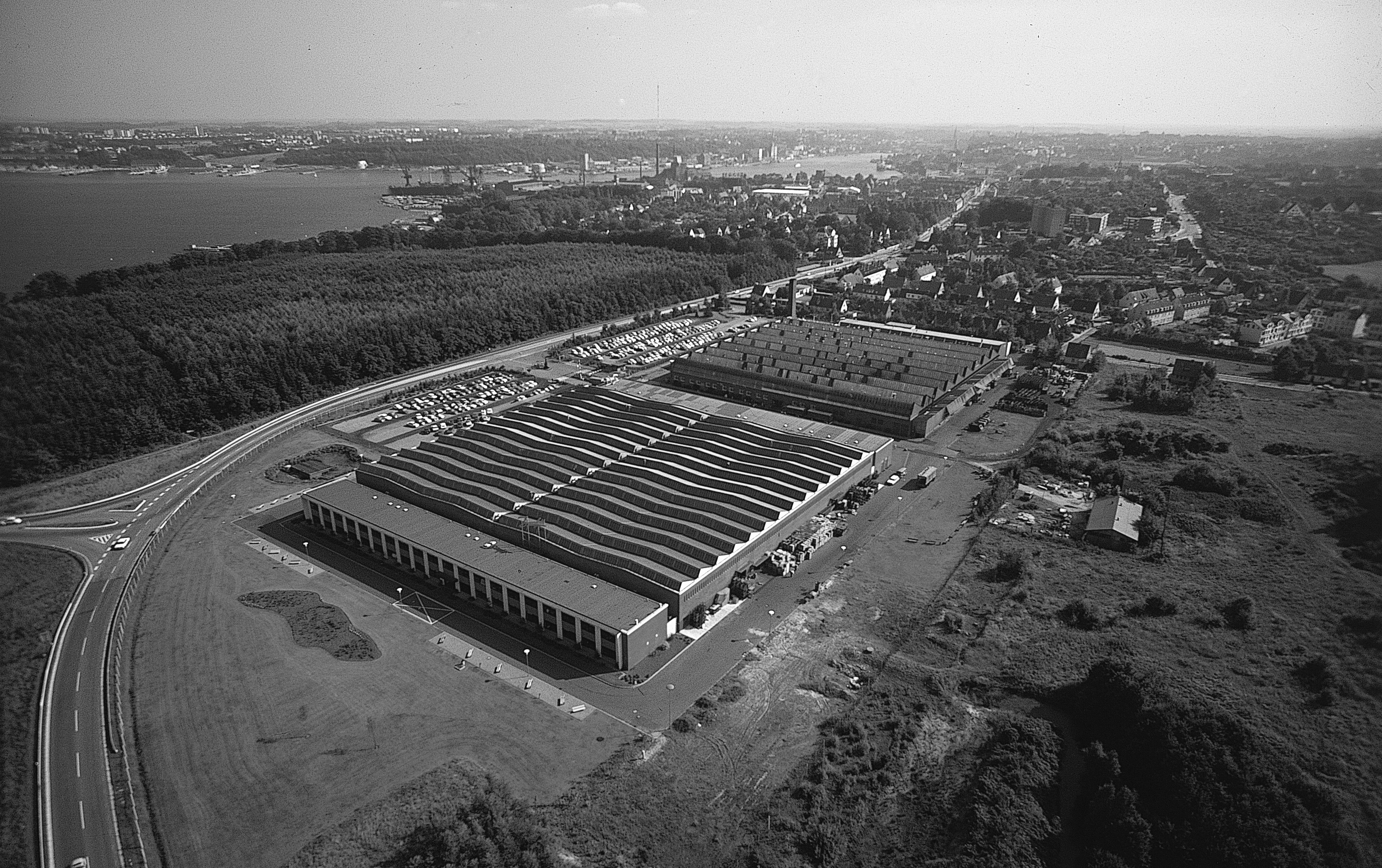 Aerial view of Factory 2 of the Danfoss Compressors plant in Flensburg